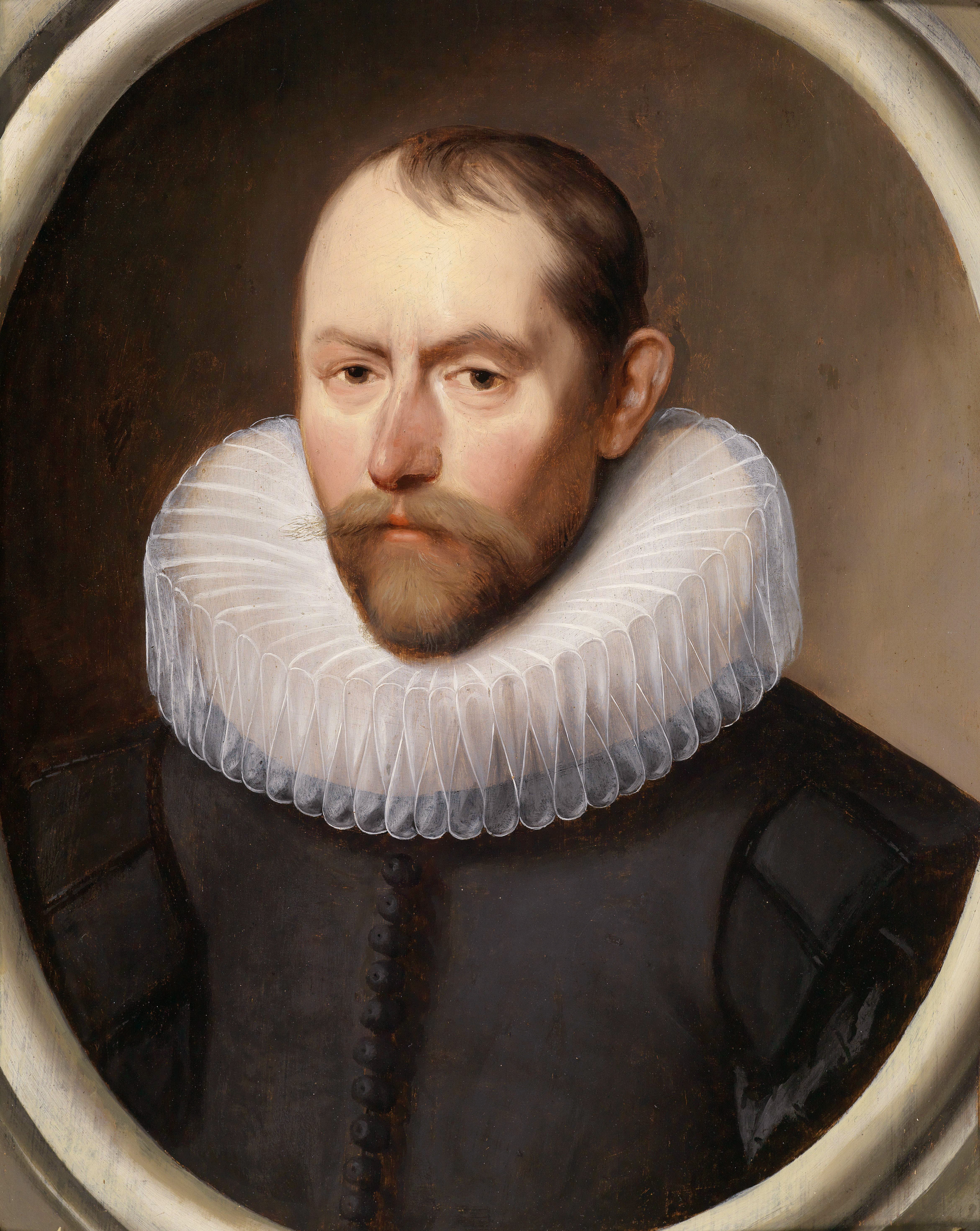 The painter Jan Wildens